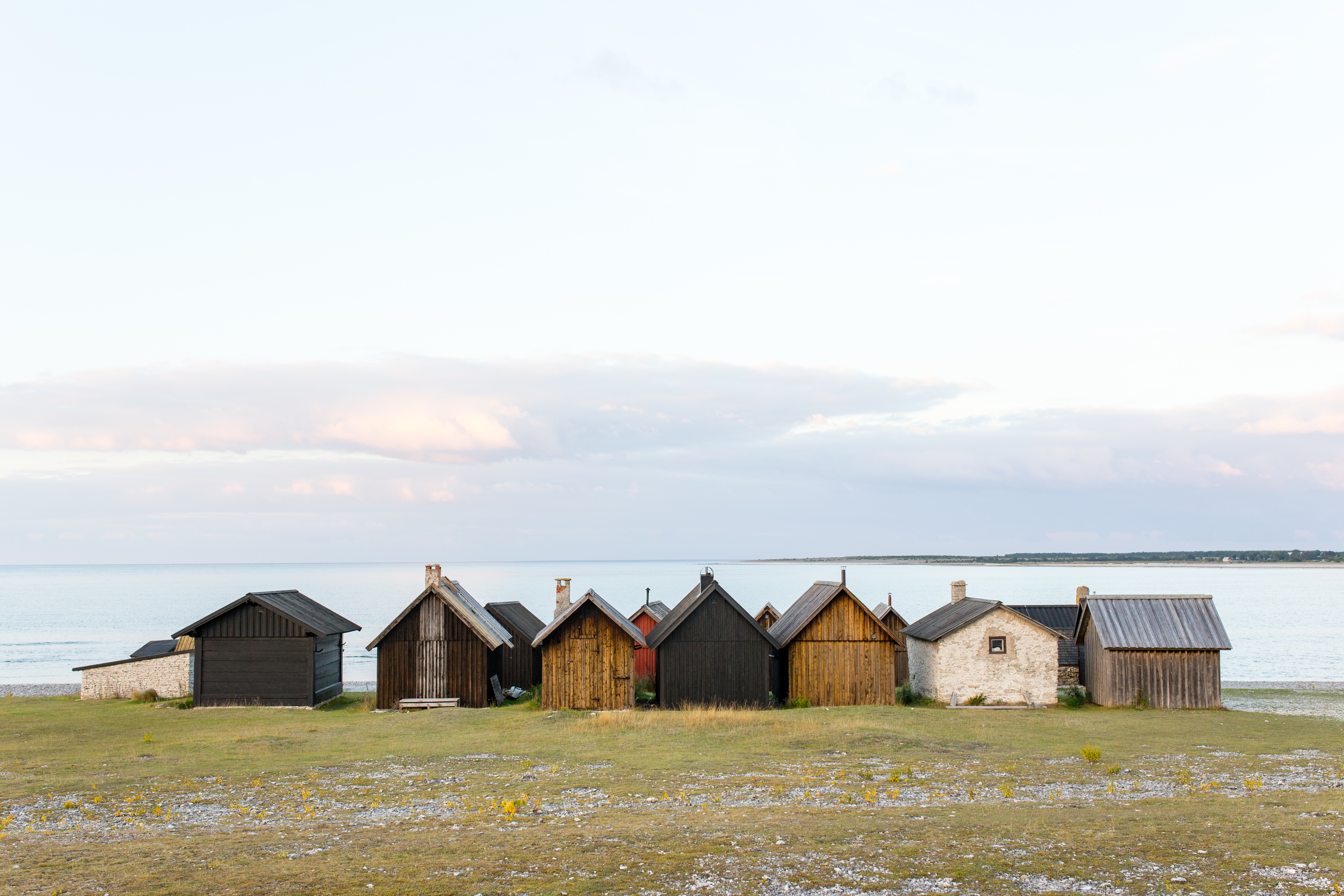 Fårö, Sweden